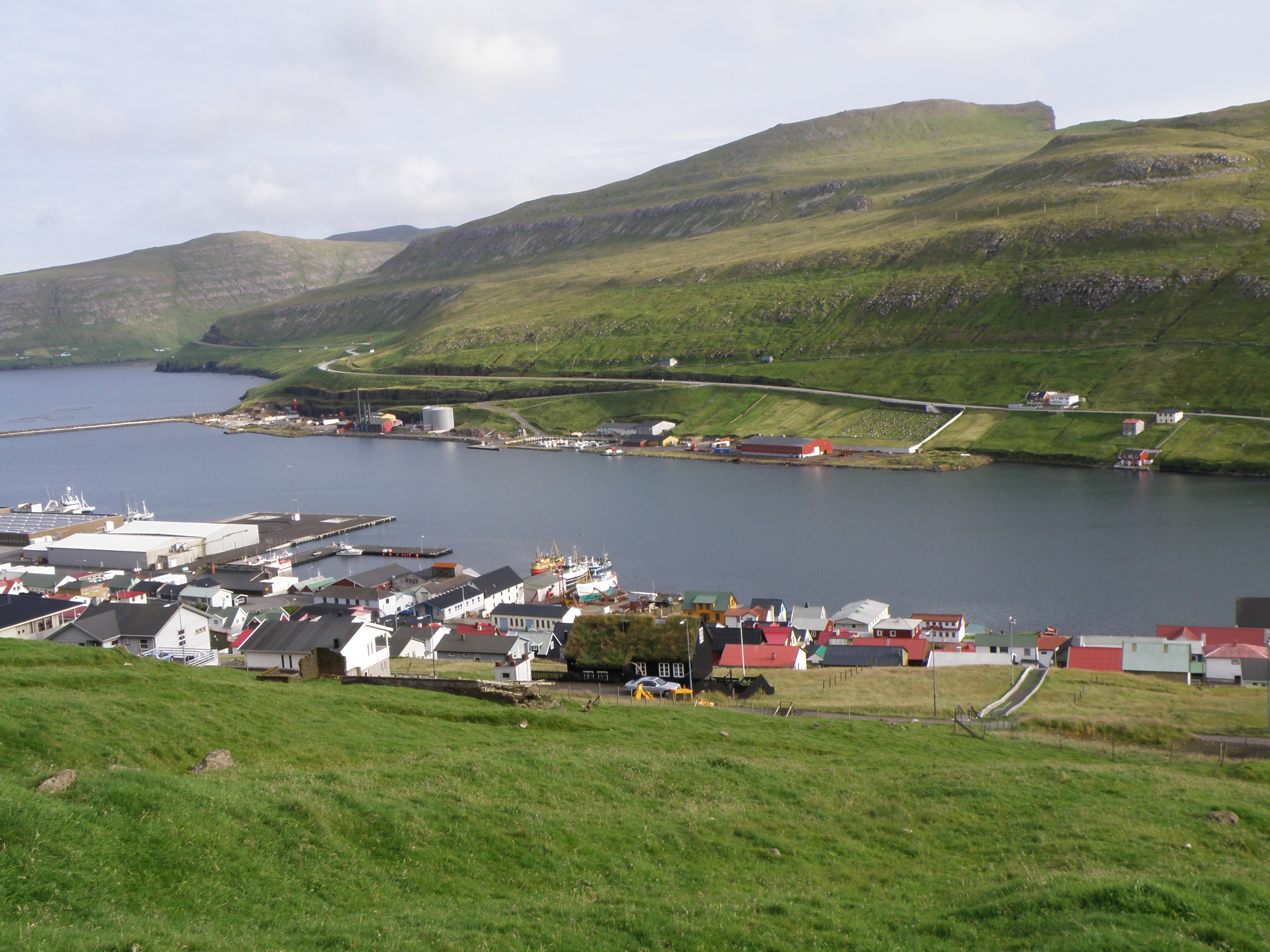 Vágur is a village on Suðuroy island in the Faroe Islands. This photo was taken on a path above the village (north of the village), with a view towards south to the center of the town and the harbour area and the fjord Vágsfjørður. On the other side of the fjord is the road to Lopra and Sumba etc. and the mountain Rávan. A part of the mountain Siglifelli is also visible (to the left on the photo). The grave yard is on the southern side of the fjord just above the red building which is Rock Trawldoors factory. The ship yard is on the northern side of the fjord. A few meters further west (to the right on the photo) is Hotel Bakkin, which is a hotel and restaurant (white building with light grey coloured roof).